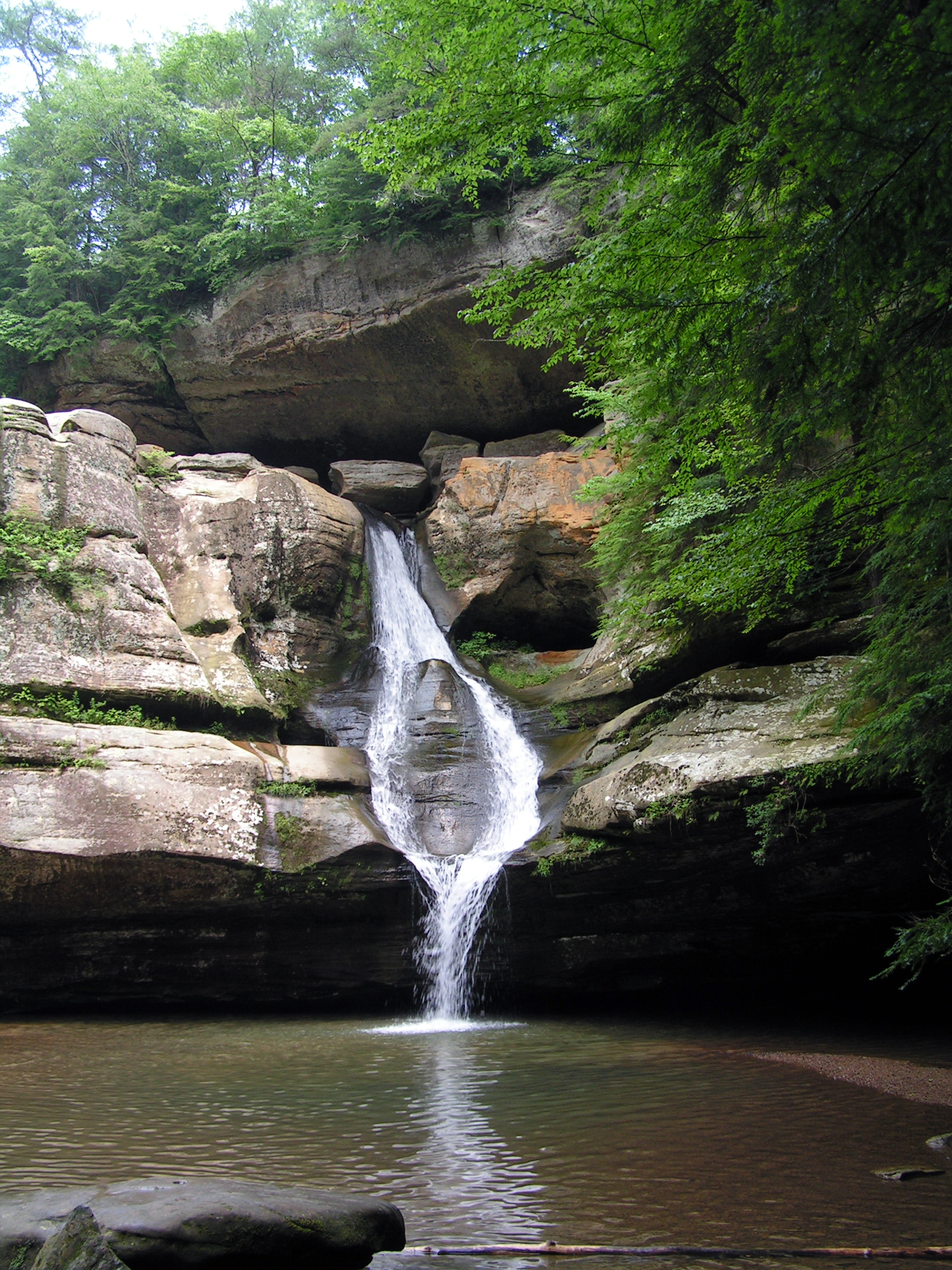 Cedar Falls, Hocking Hills State Park, Ohio